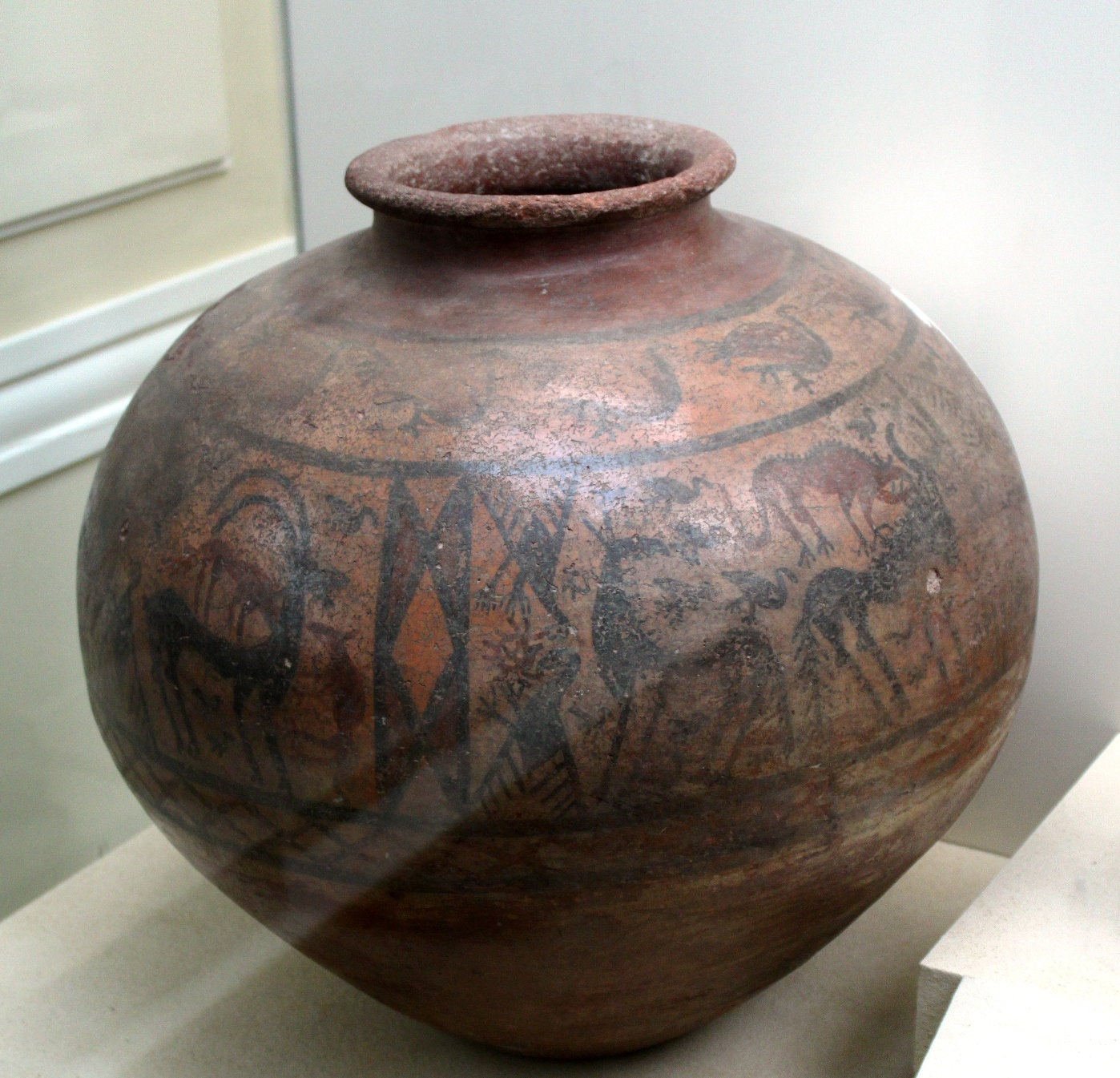 Clay vessel from the village of Shakhtakhty, Azerbaijan. Karmirberd culture. Mid-II millennium BC